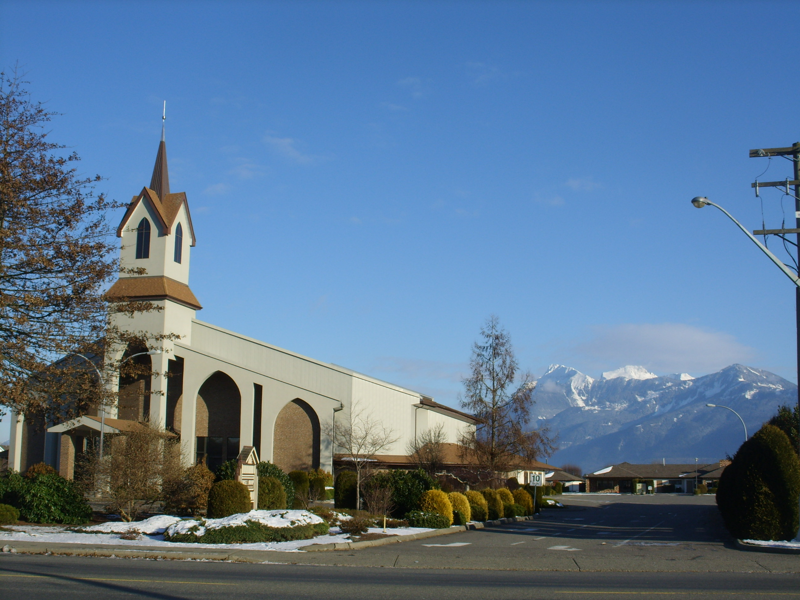 Netherlands Reformed Congregation Chilliwack